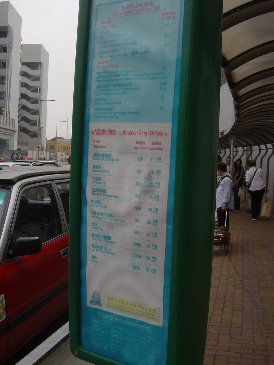 香港的士車費收費表，攝於九龍塘火車站。Taxi fare table near Kowloon Tong KCR Station, Hong Kong.